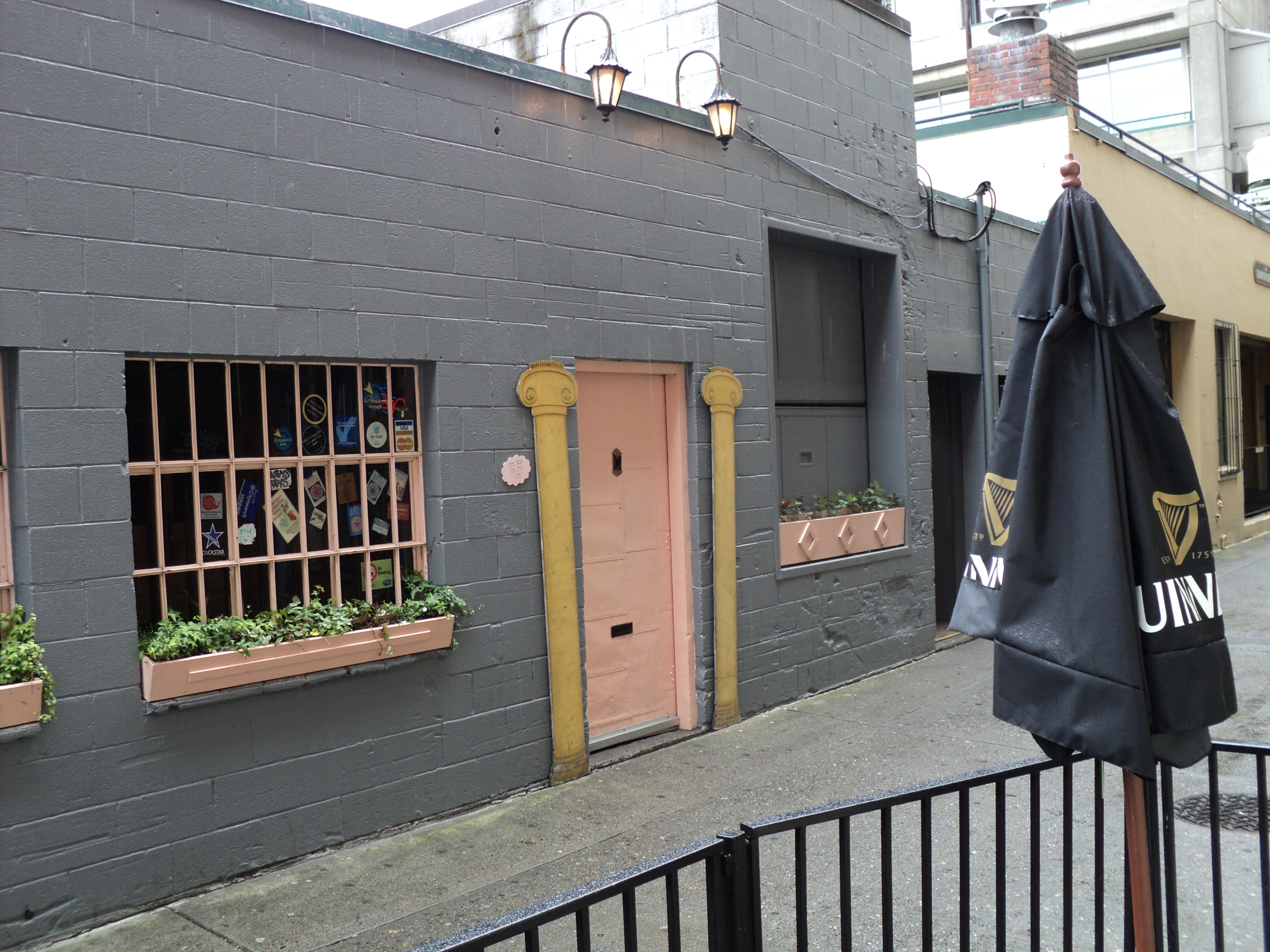 View of the Pink Door restaurant, 1919 Post Alley, Pike Place Market, Seattle, Washington.